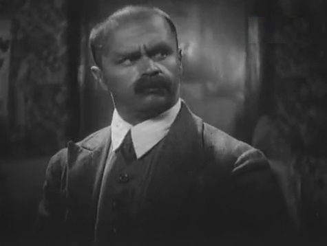 Aleksandr Melnikov in Naslednyi prints respubliki (1934)